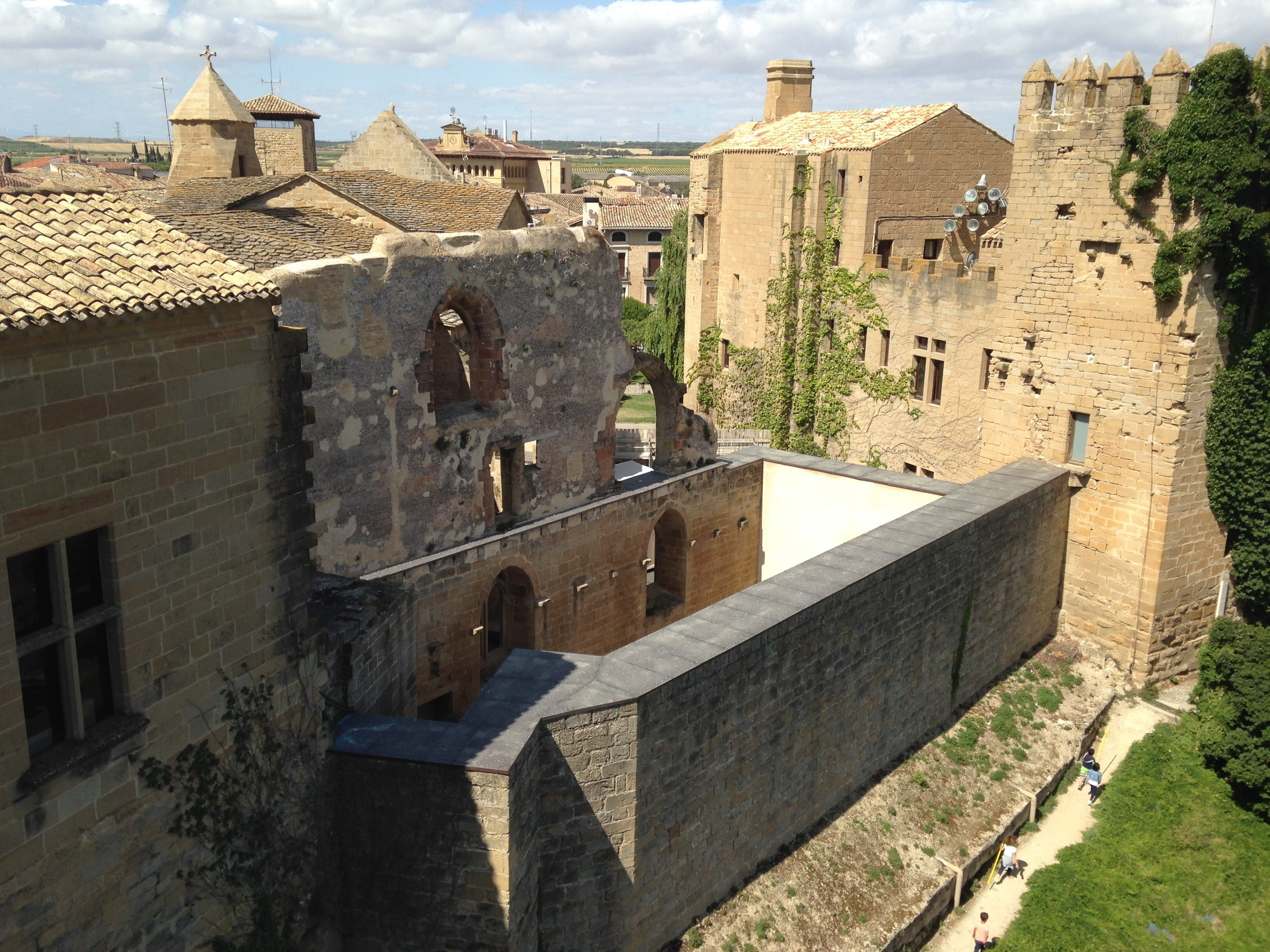 Vives of thé Royal Palace of Olite, ruins of San George’s chapel